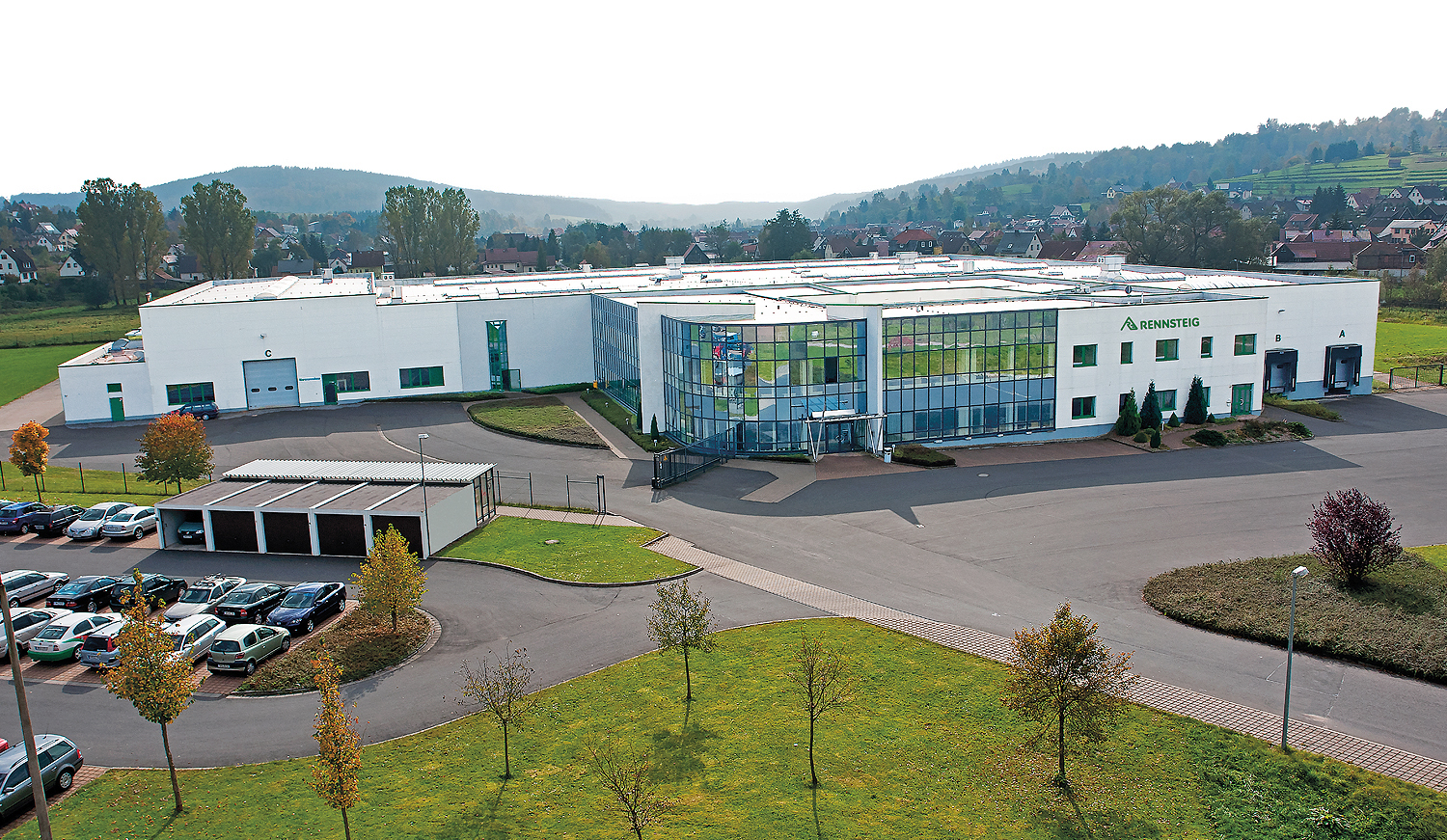 Headquarters of Rennsteig Werkzeuge GmbH in Viernau (Thuringia).